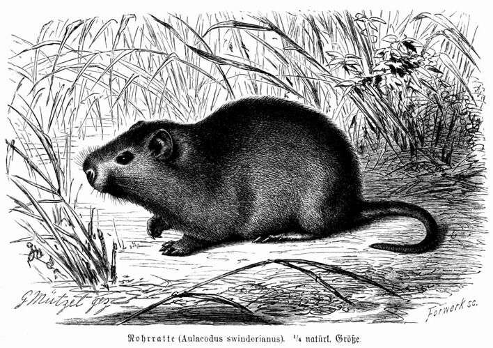 Thryonomys swinderianus (Aulacodus swinderianus) - graphics from "Brehms Thierleben"